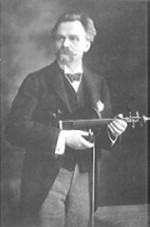 Picture of Jenő Hubay at Gala Concert in 1912. Hubay is holding his famous Stradivarius violin.